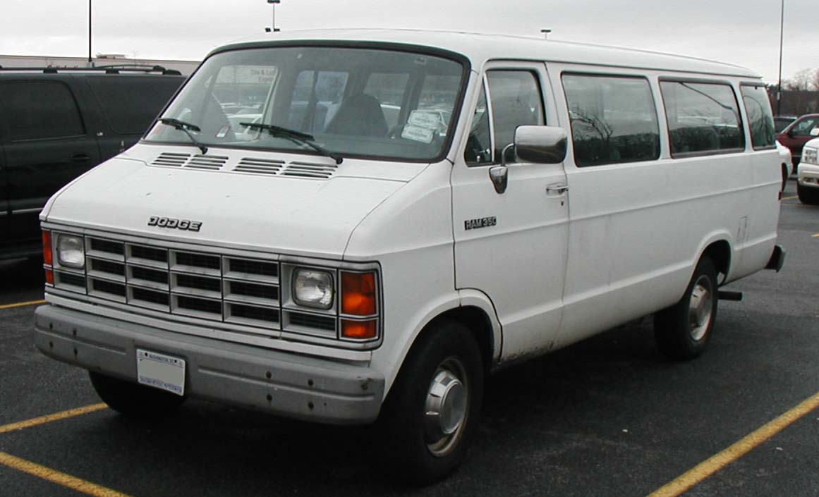 1986-1993 Dodge Ram Wagon 350 photographed in USA.